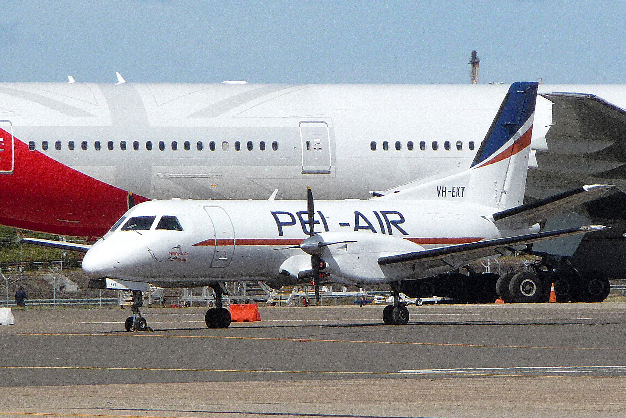 Pel-Air Saab 340A freighter parked at Sydney Airport.